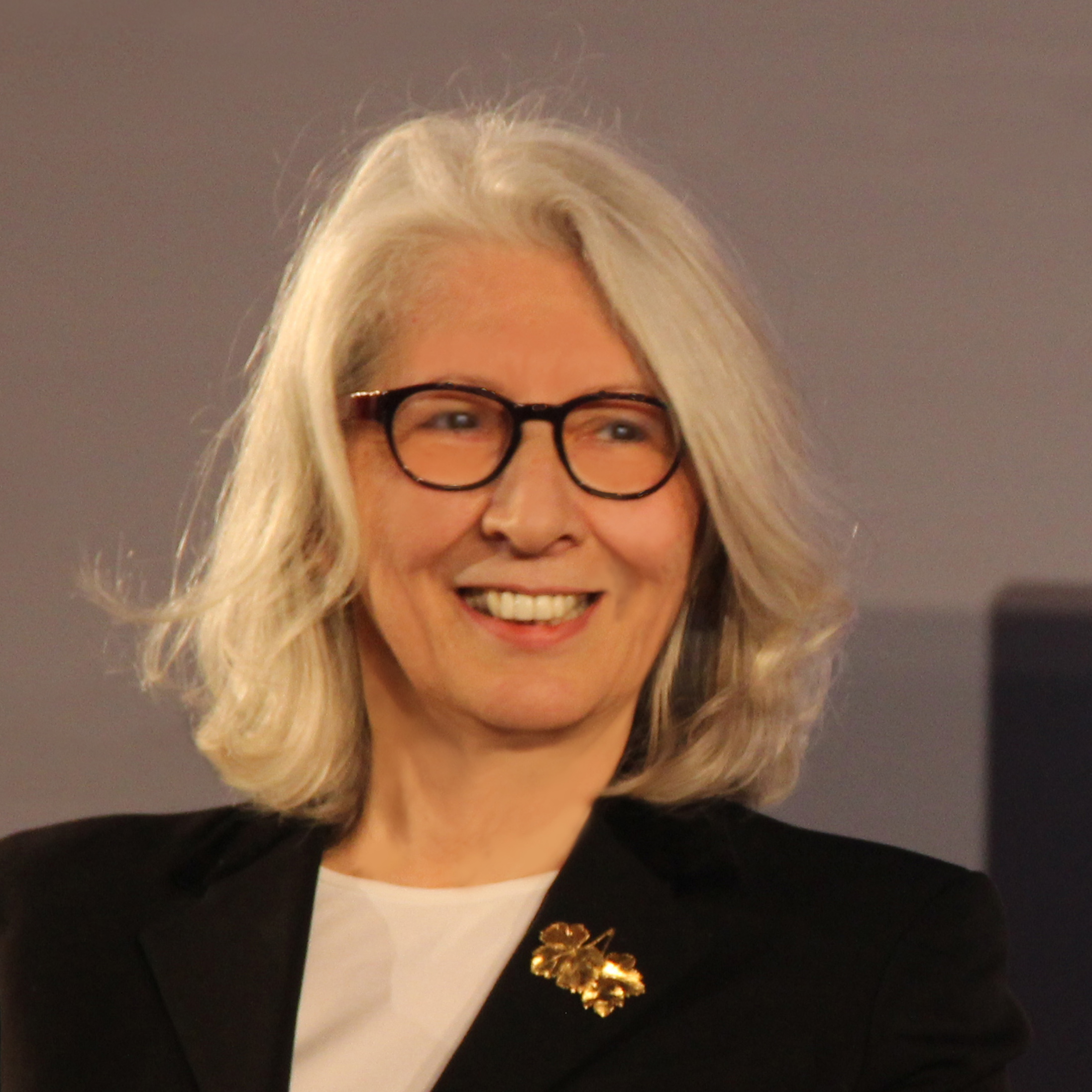 Ms Saniye Gülser Corat, UNESCO's Director for Gender Equality, in November 2019. © UNESCO/Bruno Zanobia